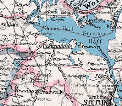 Detail from a map of Pomerania.